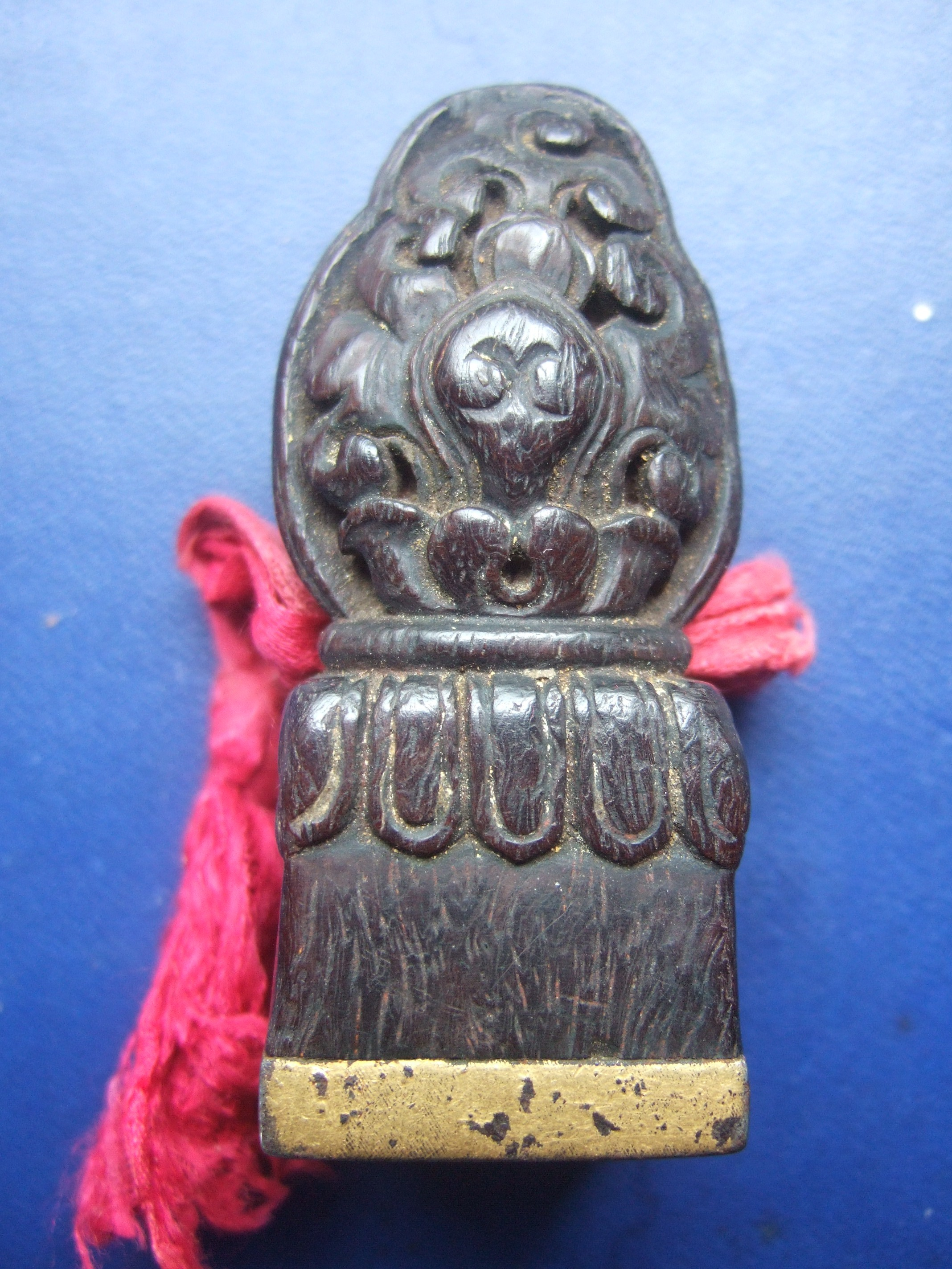 Tibetan partly gilded seal with wooden handle, no. 11